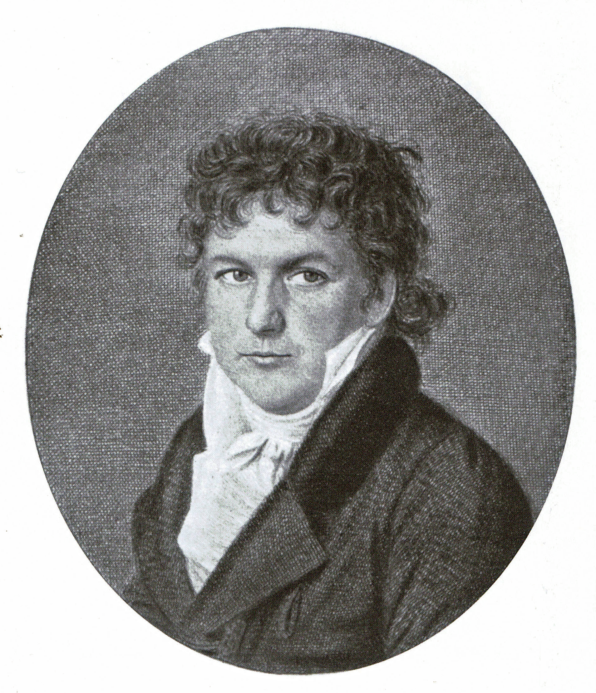 Adolph von Vagedes (1777-1842)